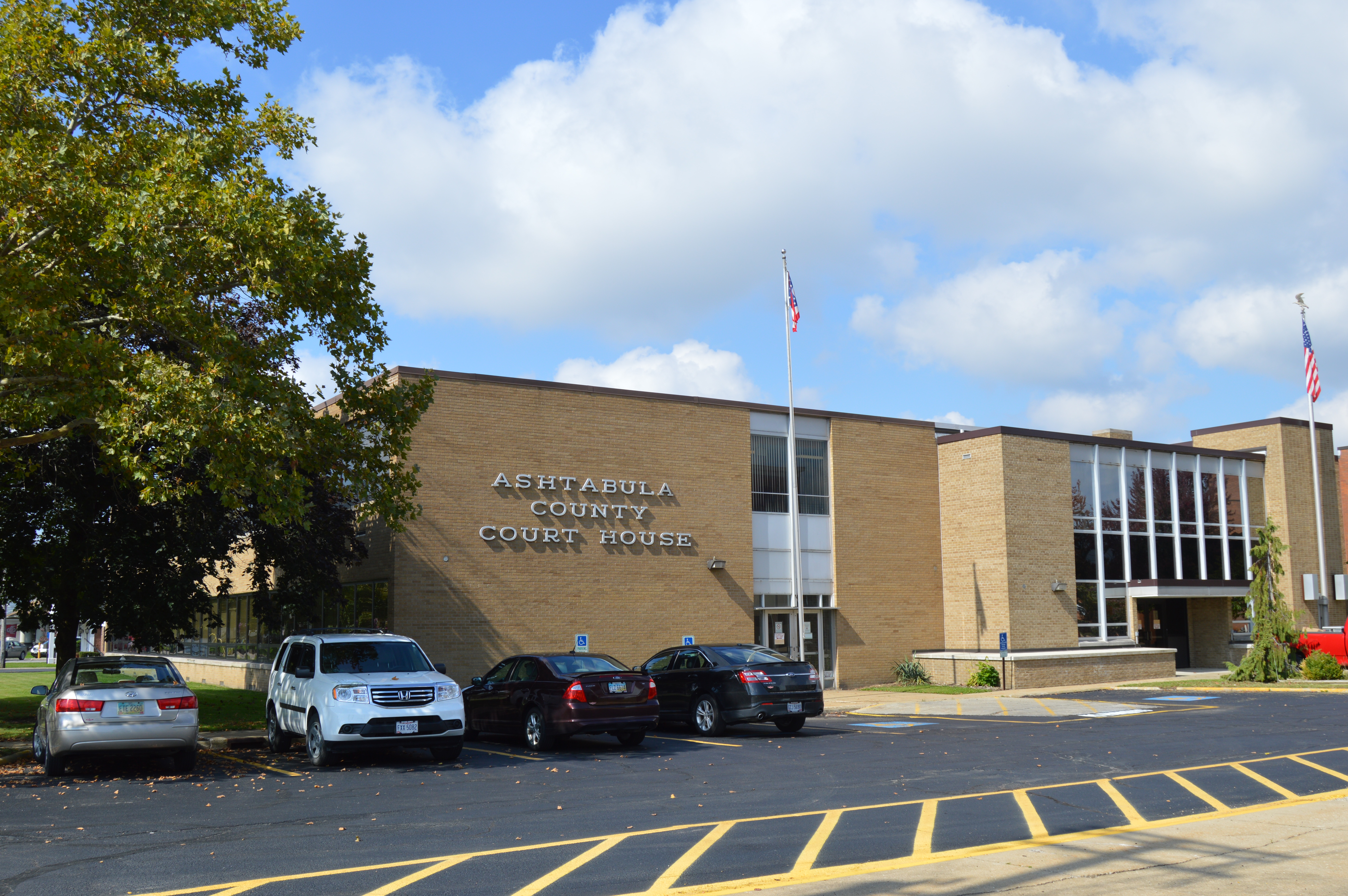 Front and eastern side of the new section of the Ashtabula County Courthouse, located at 25 W. Jefferson Street in Jefferson, Ohio, United States.